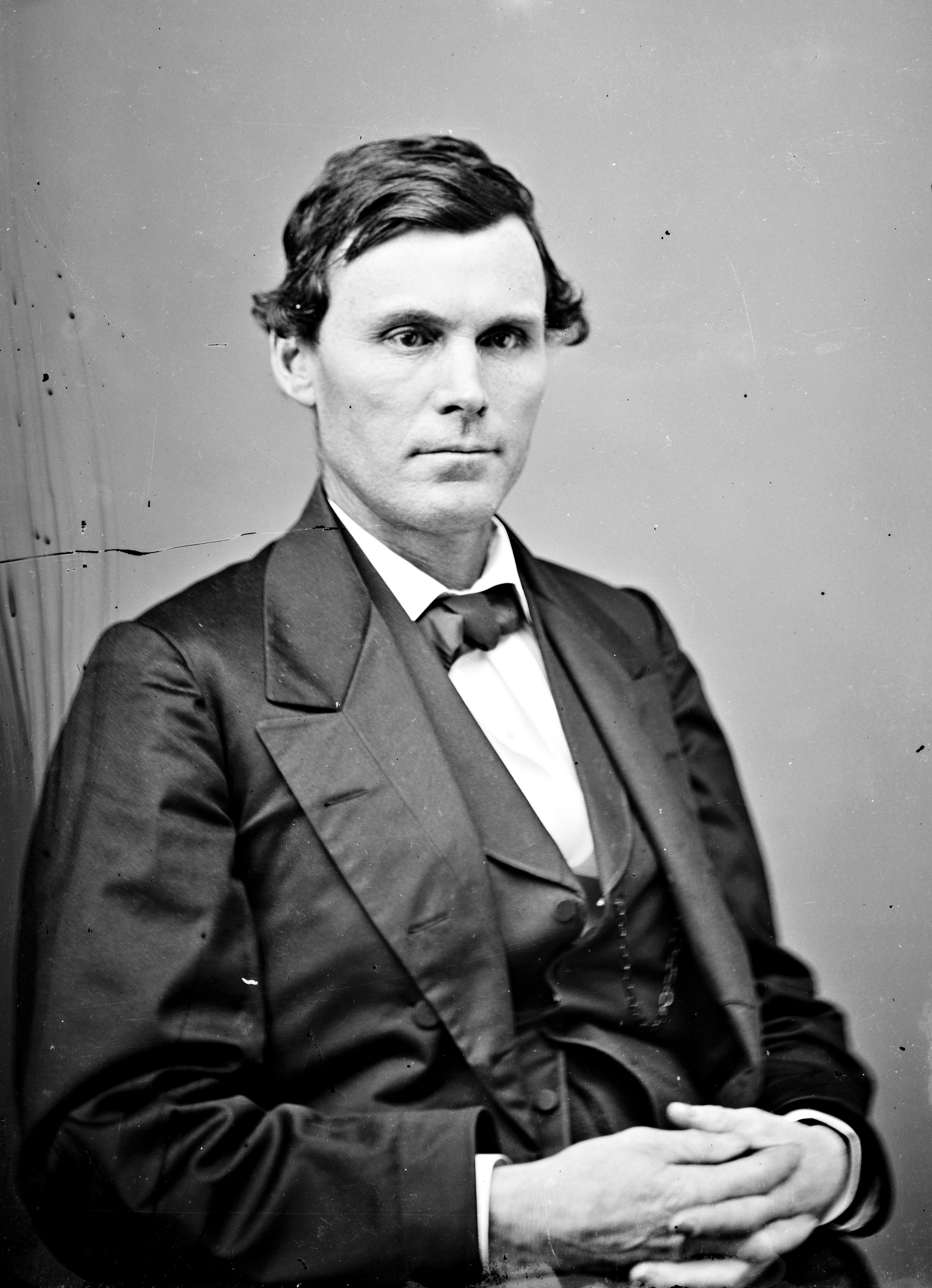 Benjamin F. Harding. Library of Congress description: "Hon. B. F. Harding"